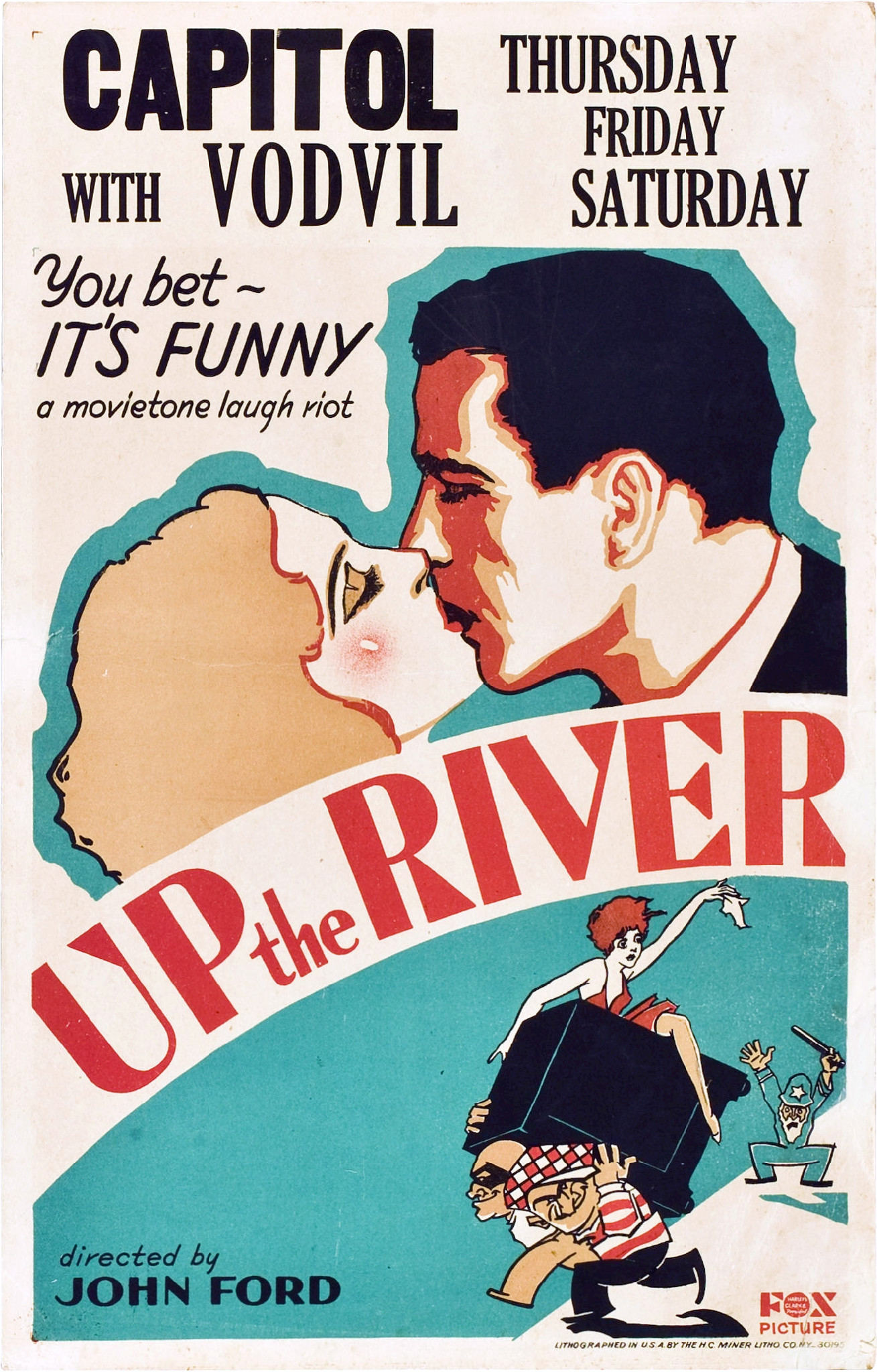 Poster for the 1930 film Up the River. The item has no copyright markings on it as can be seen in the links above. At lower right is Lithograped in USA by the H. C Miner Litho Co., NY 30195, and the Fox Picture logo.